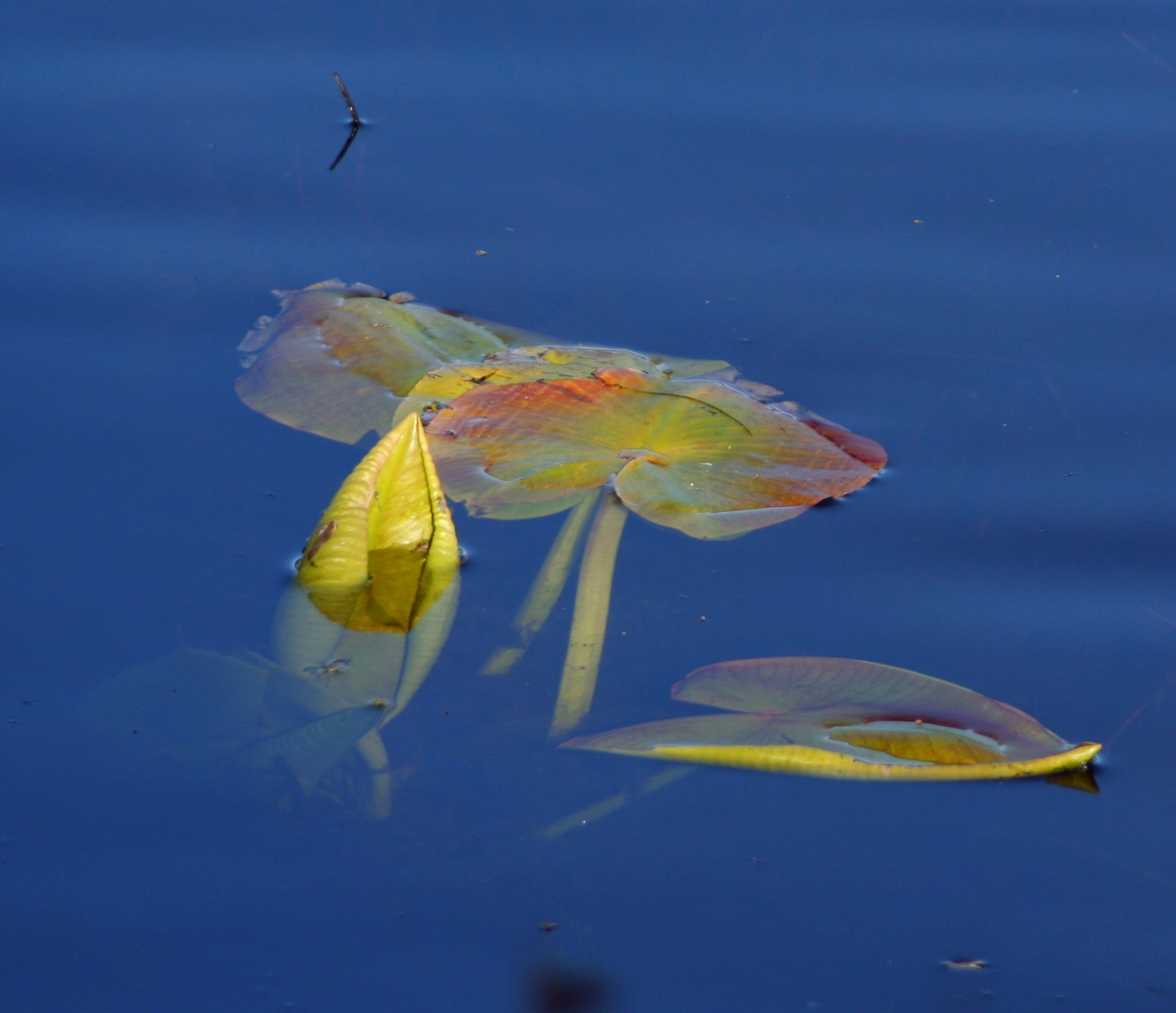 European White Waterlily or White Lotus